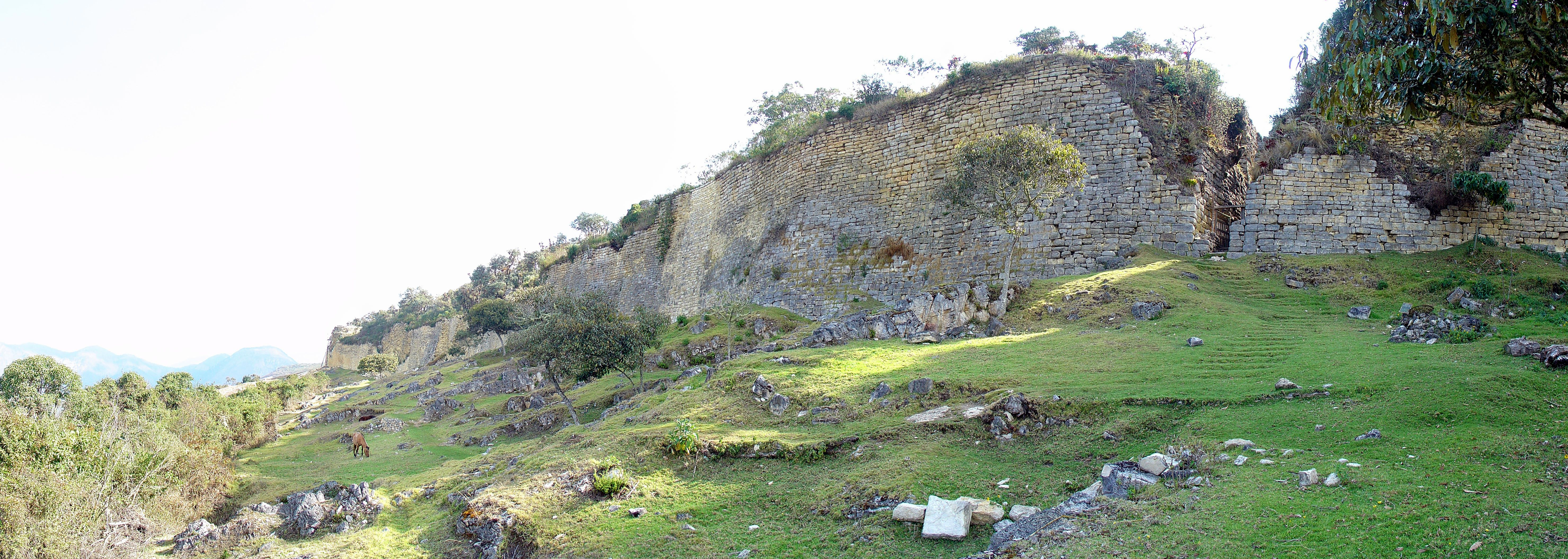 Eastern facade of the wall surrounding Kuelap forteress